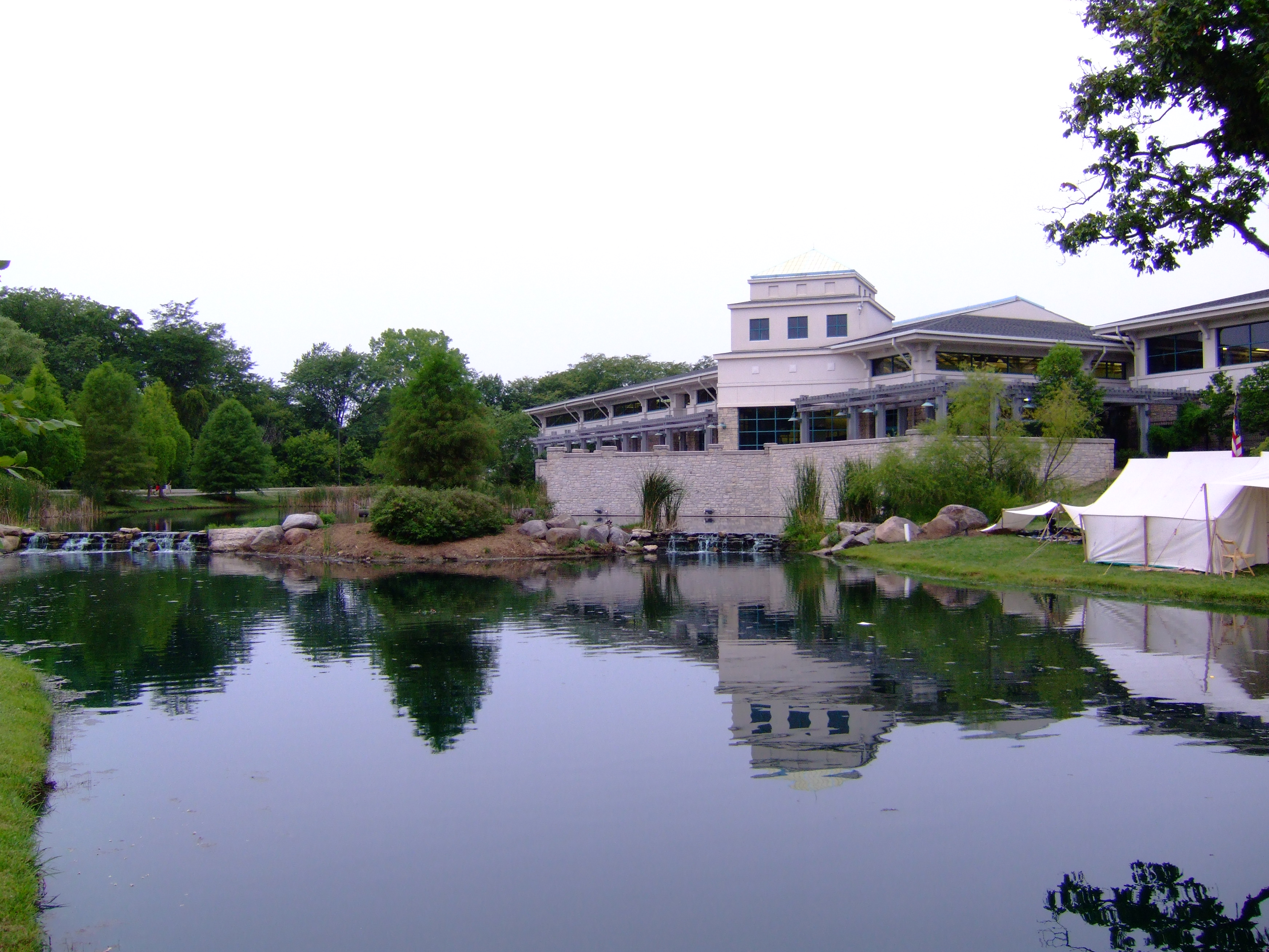 The Dublin Community Recreation Center south facade